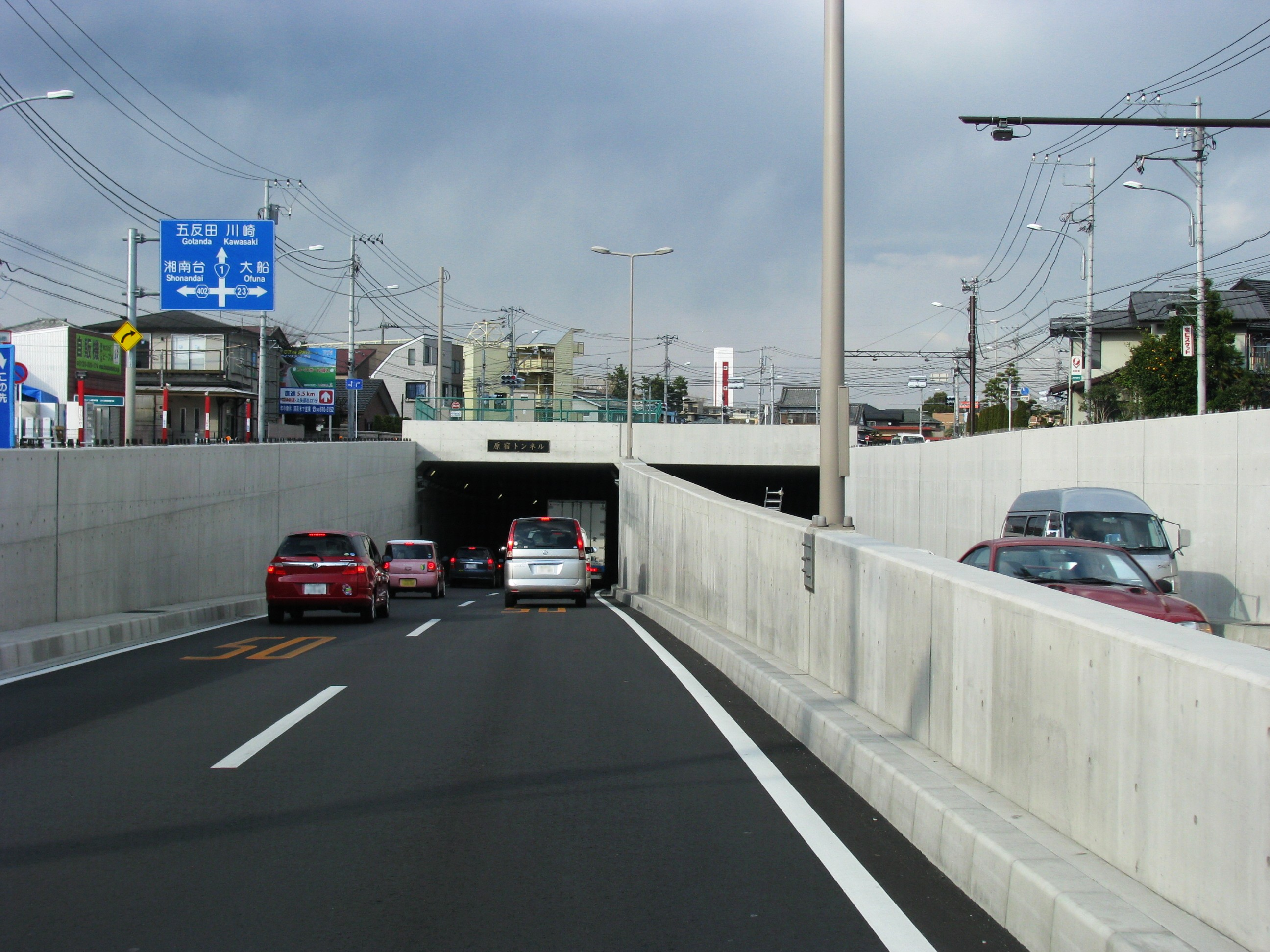 The Harajuku tunnel of Japan National Route 1. This place is Totsuka, Yokohama, Kanagawa Prefecture, Japan.